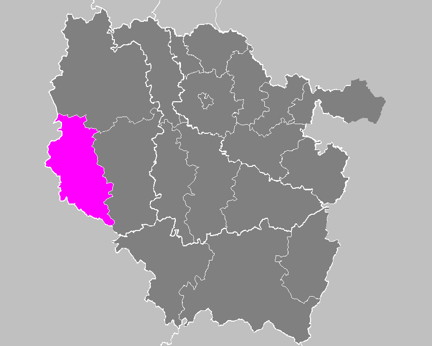 Maps of arrondissements and cantons of France: Arrondissement de Bar-le-Duc.PNG